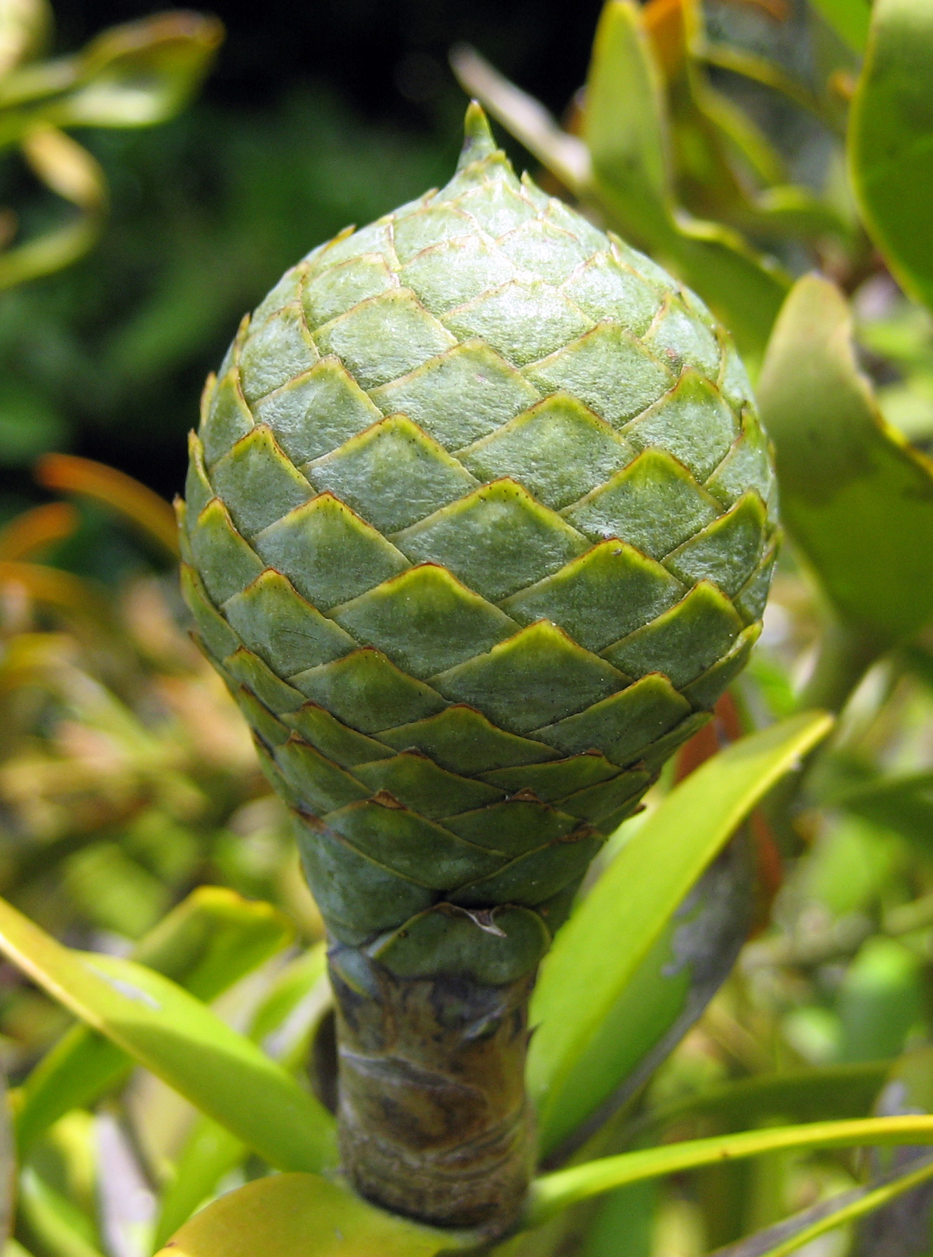 Female cone of New Zealand Kauri (Agathis australis), Auckland, New Zealand. This cone is one year or so old; a cone takes about 18 months to mature